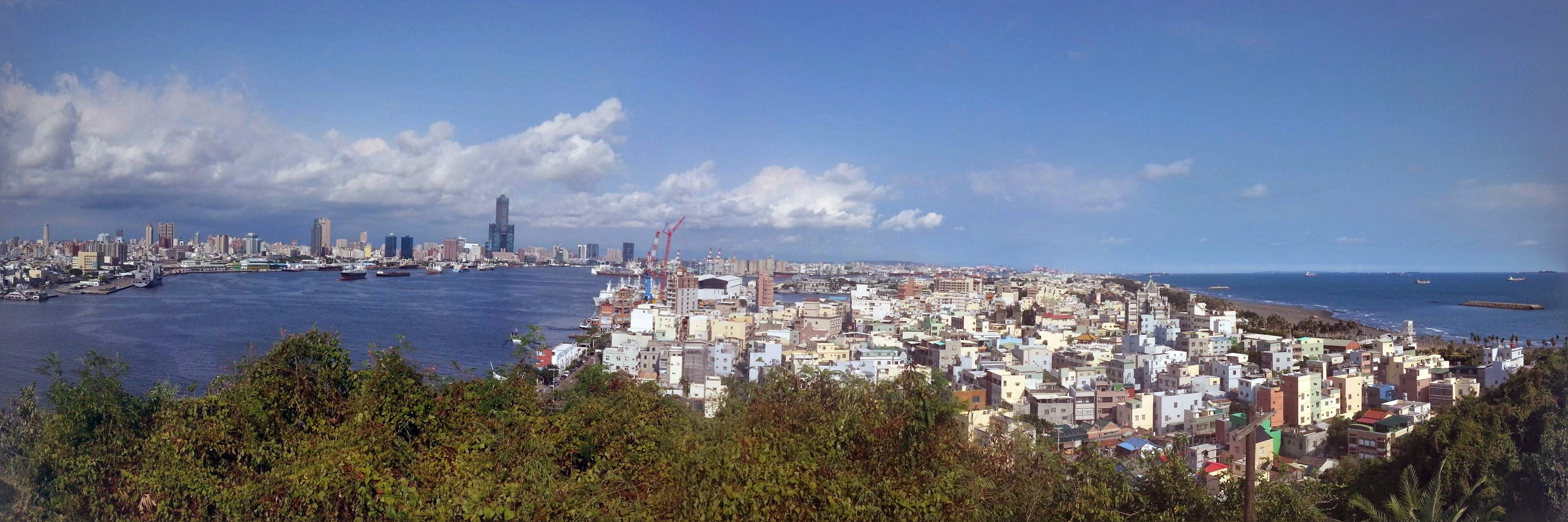 Outllok from Kaohsiung Lighthouse